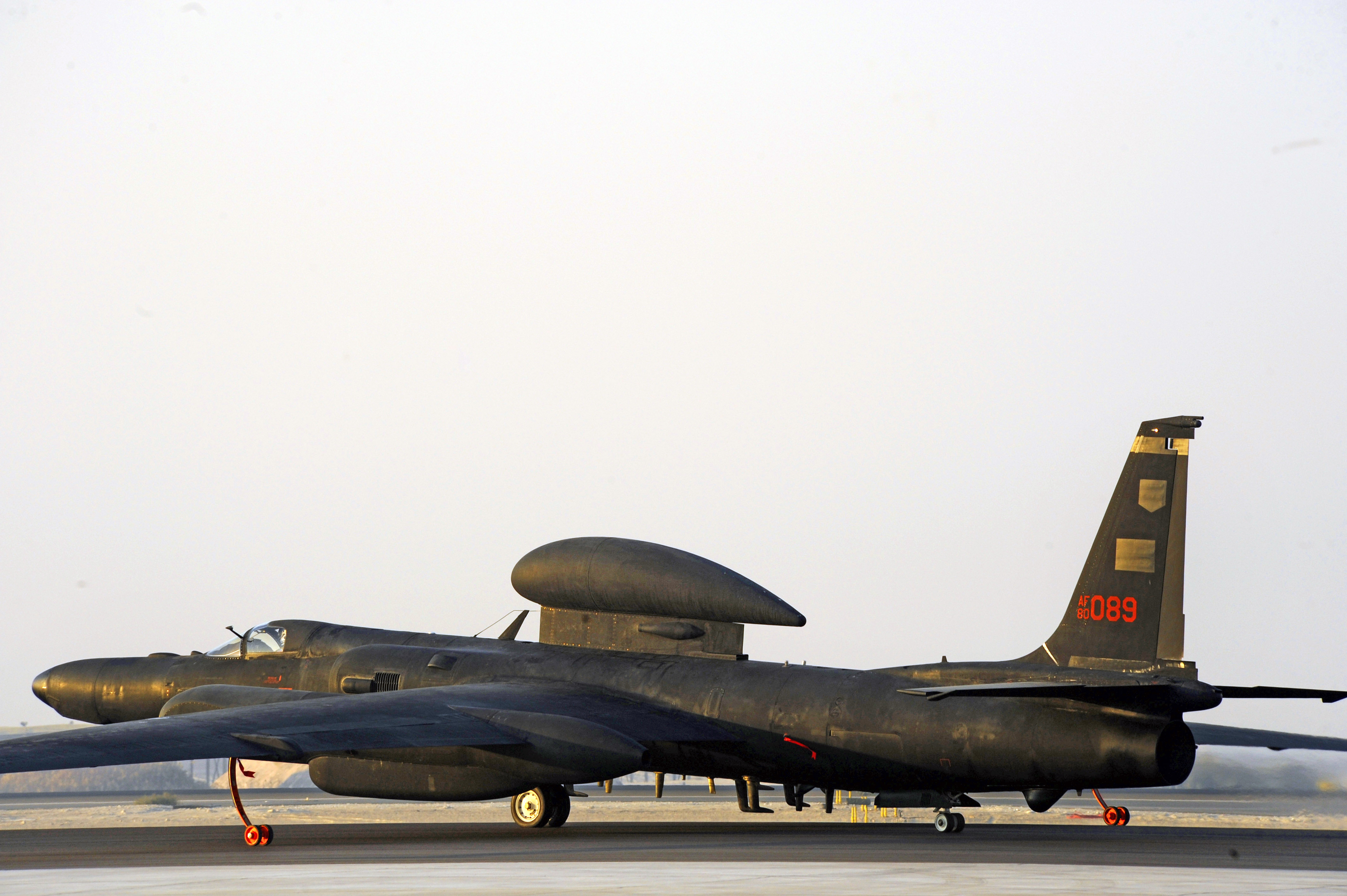 A U.S. Air Force U-2 Dragon Lady from the 99th Expeditionary Reconnaissance Squadron taxis to the runway for takeoff at an undisclosed location in Southwest Asia, Dec. 2, 2010. The U-2 is a high altitude reconnaissance aircraft that reaches altitudes above 70,000 feet. (U.S. Air Force Photo/Staff Sgt. Eric Harris)